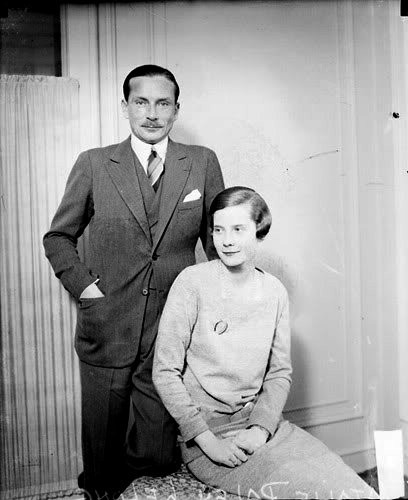 Natalie Paley and her first husband Lucien Lelongs